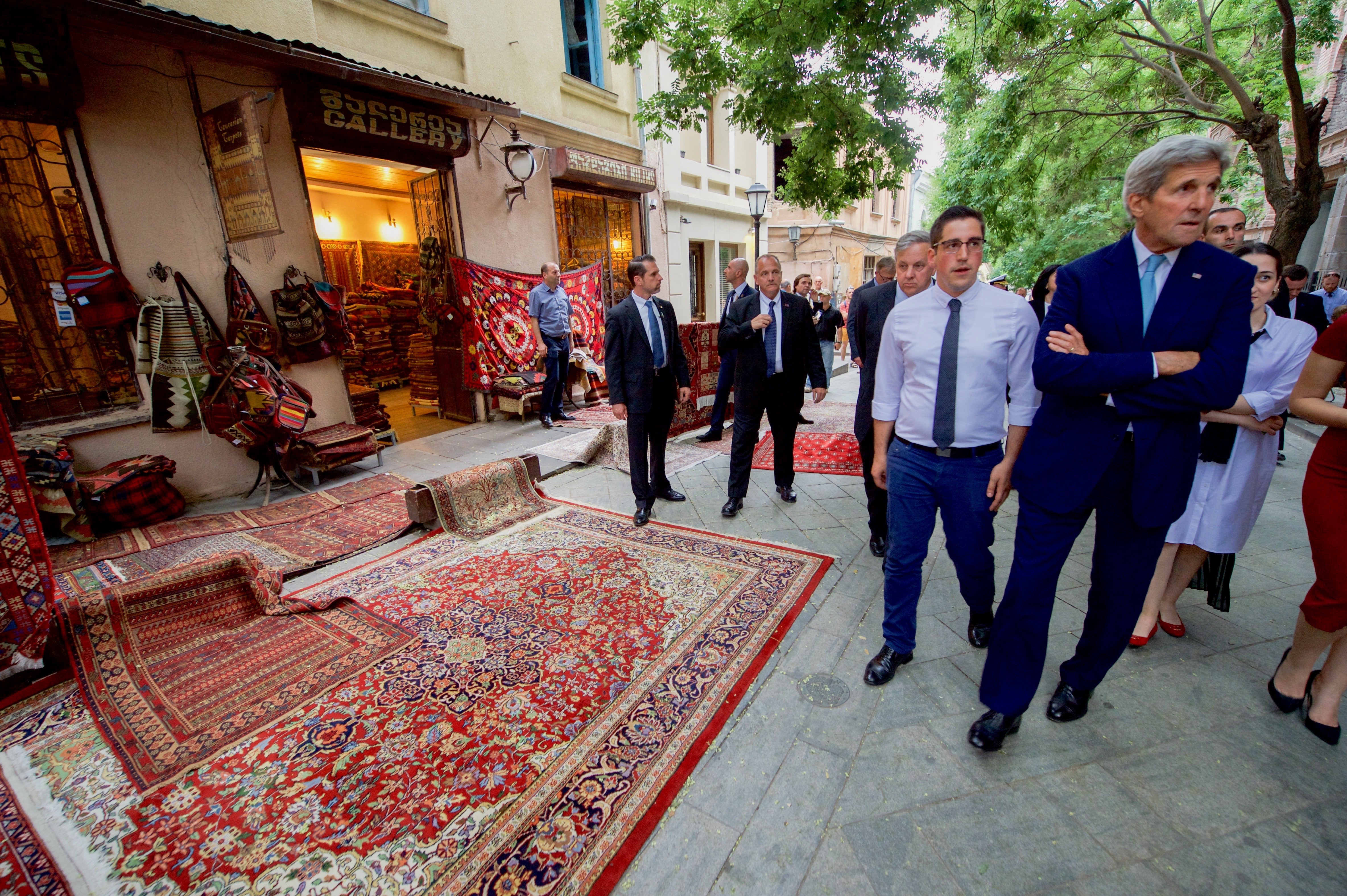 U.S. Secretary of State John Kerry looks at Georgian carpets outside a shop in the historic district of Tbilisi, Georgia, on July 6, 2016, during a tour following a conversation with members of a young Georgian entrepreneurs' group about their country, their businesses, and their aspirations. [State Department Photo/ Public Domain]